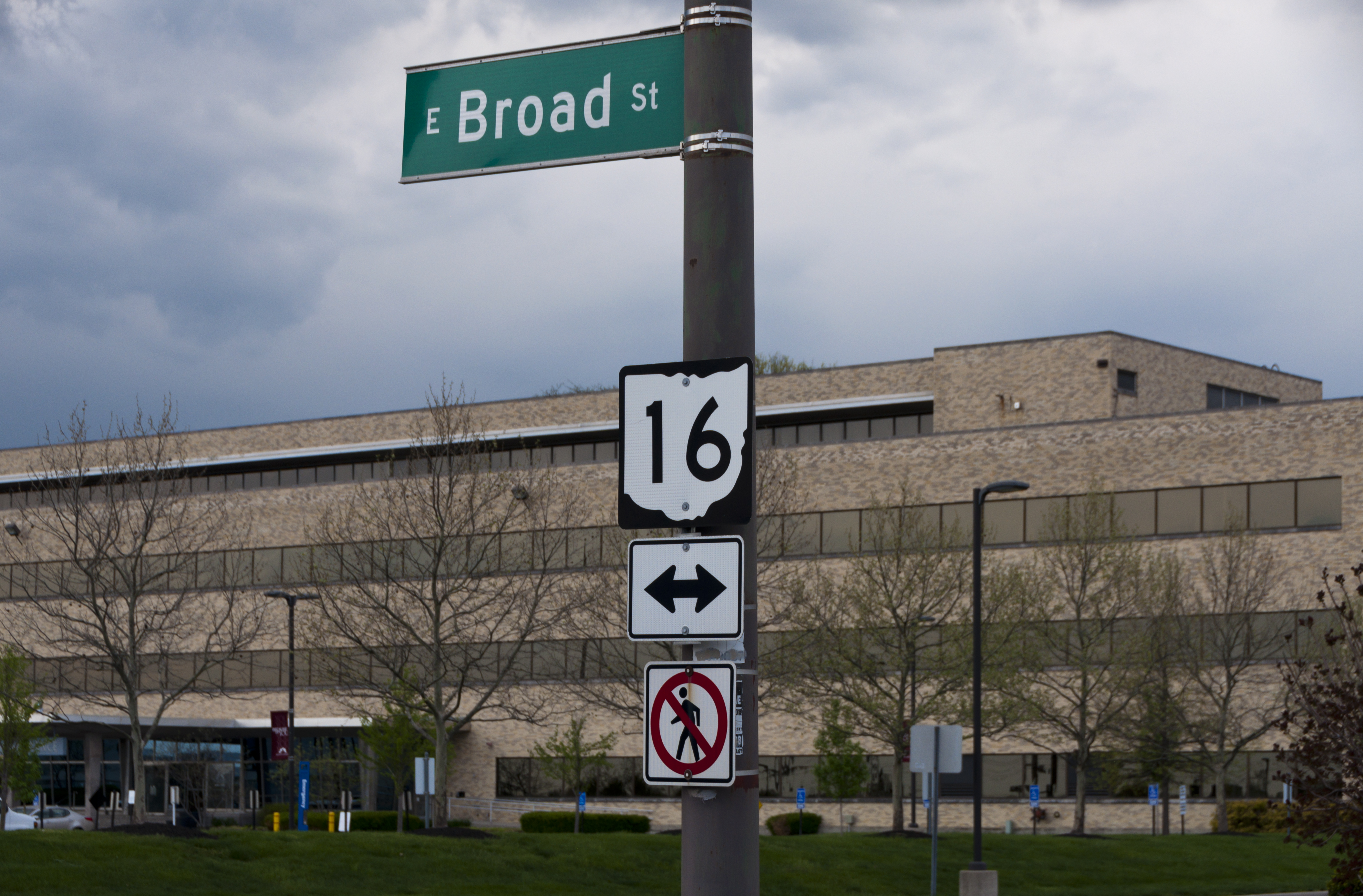 Ohio State Route 16 (Broad Street) sign immediately west of the I-270 intersection.